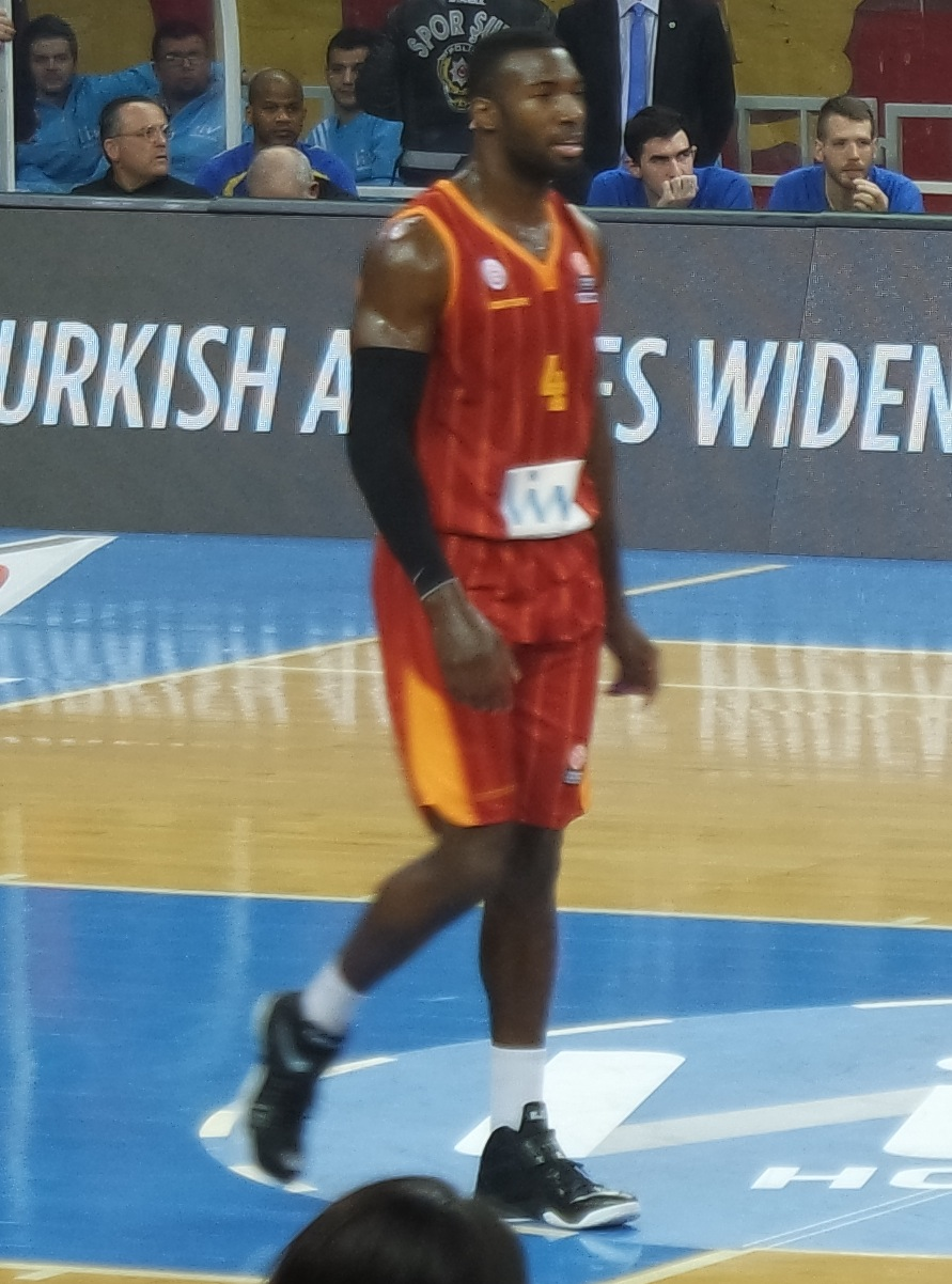 Patric Young